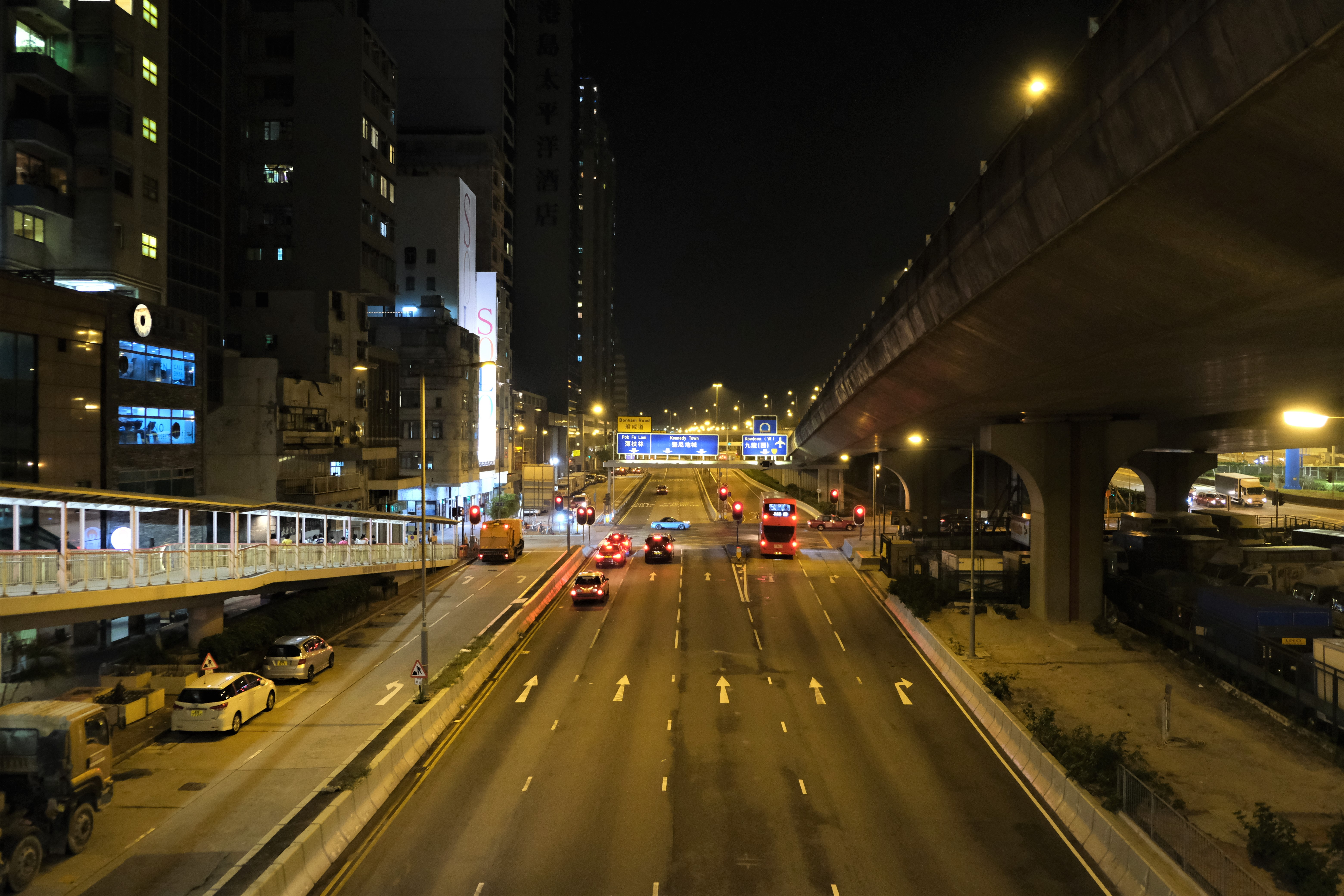 Connaught road (In Sai Ying Pun,Hong Kong) night view ( Near Sun Yet Sen Memorial Park)